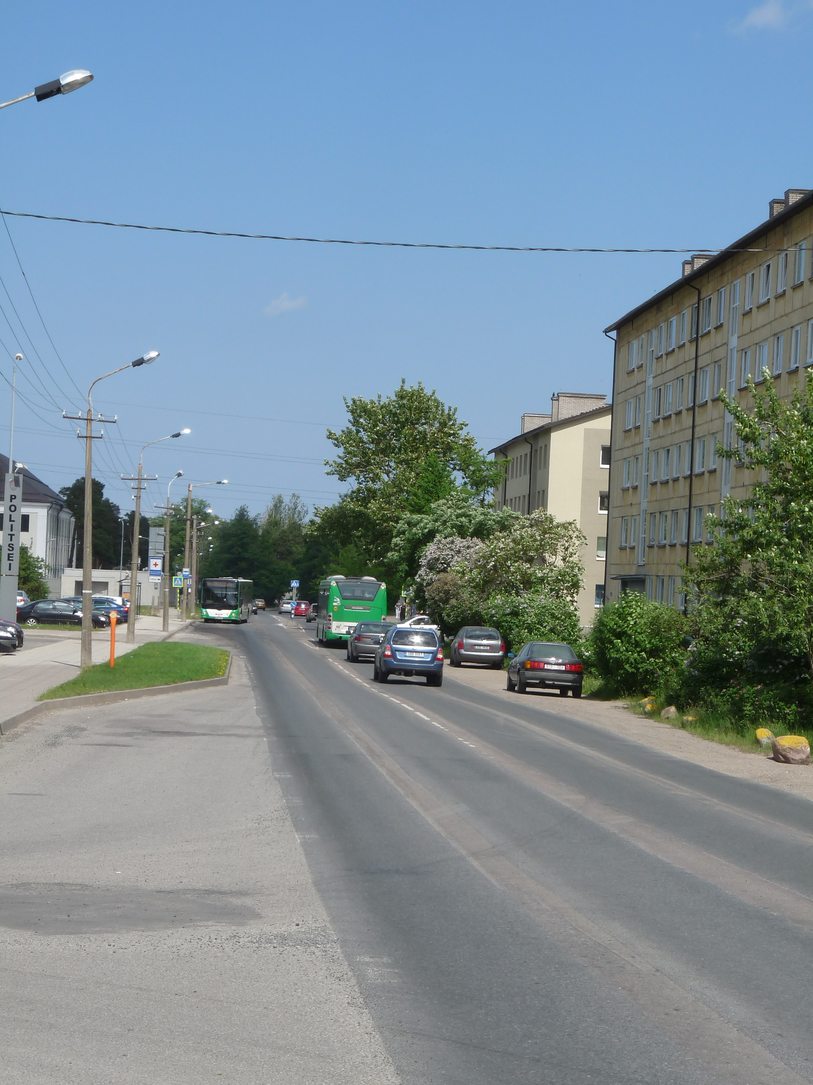 Rahumäe street in Tallinn, Estonia